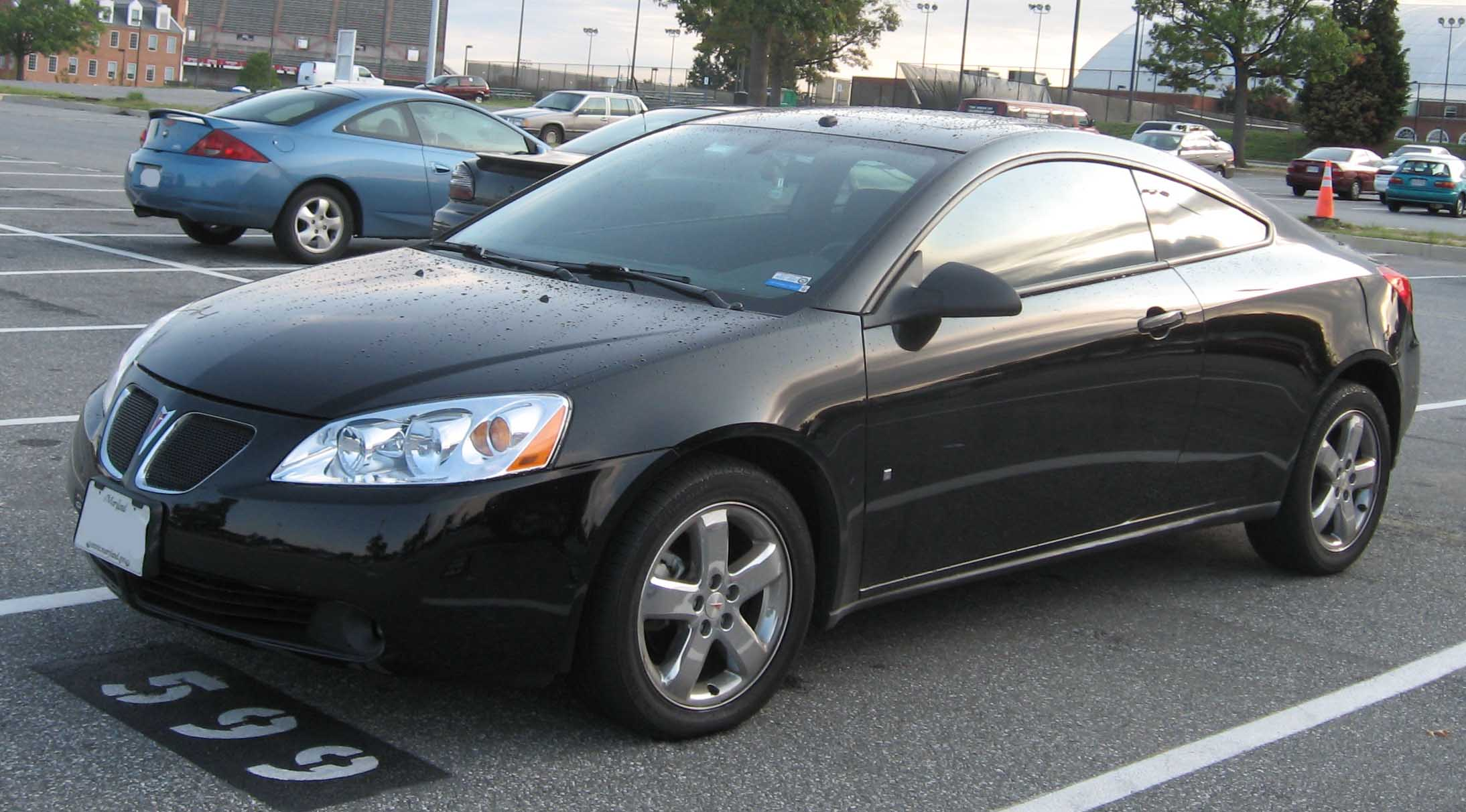 2006-2008 Pontiac G6 photographed in College Park, Maryland, USA.